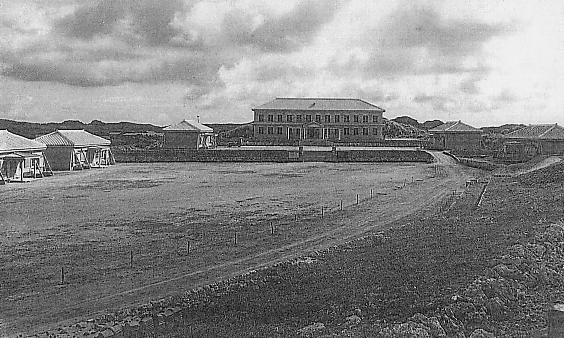 University of the Ryukyus in early 1950s